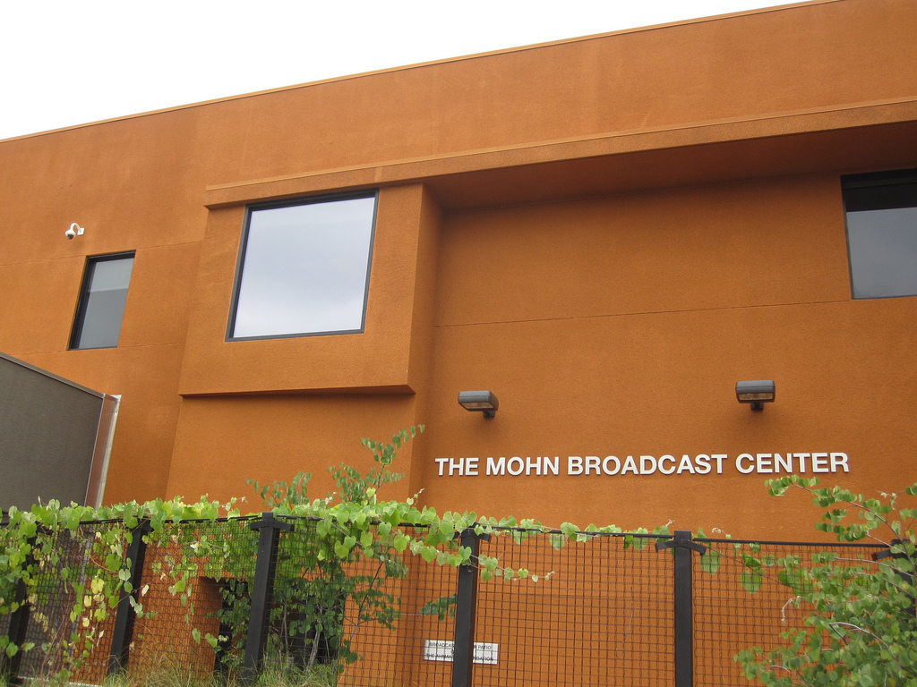 A photo of KPCC's Mohn Broadcast Center in Pasadena, California. Taken from my Flickr page